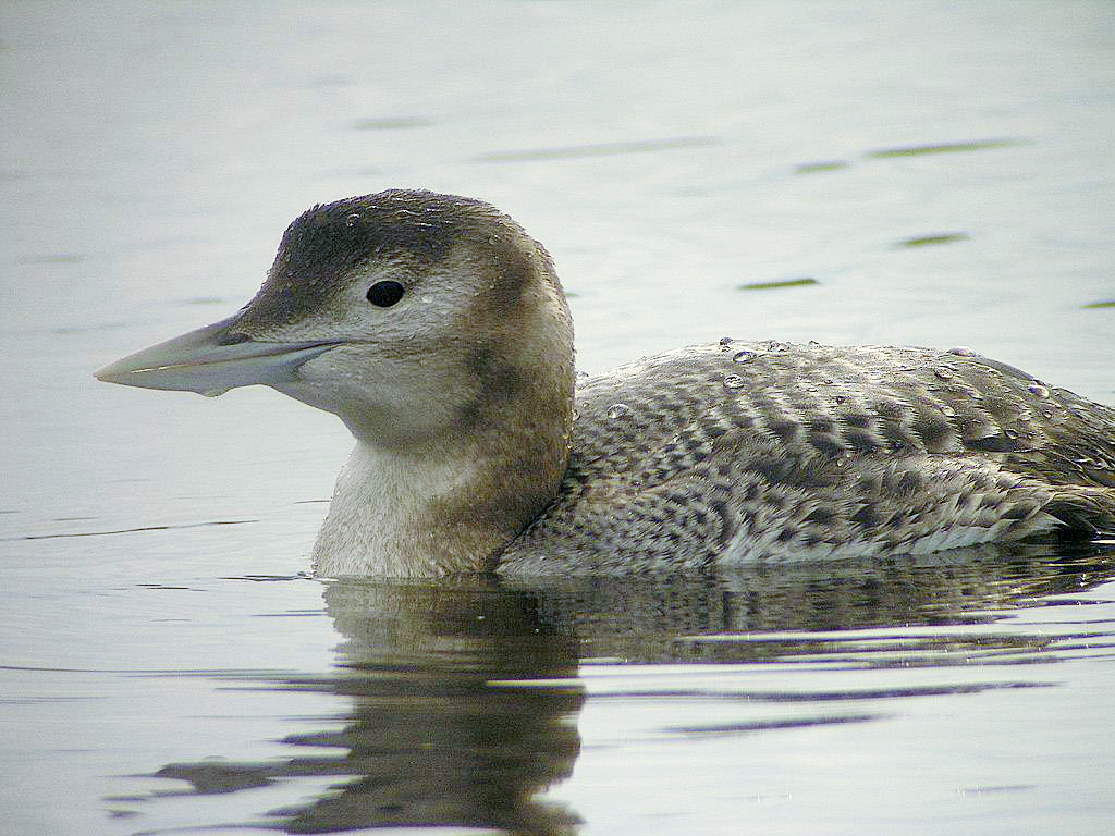 Juvenile Yellow-billed Loon, a rare visitor to the California coast. Would have framed it better but it swam too close for a good digiscope shot. Taken just sout of Half Moon Bay, California